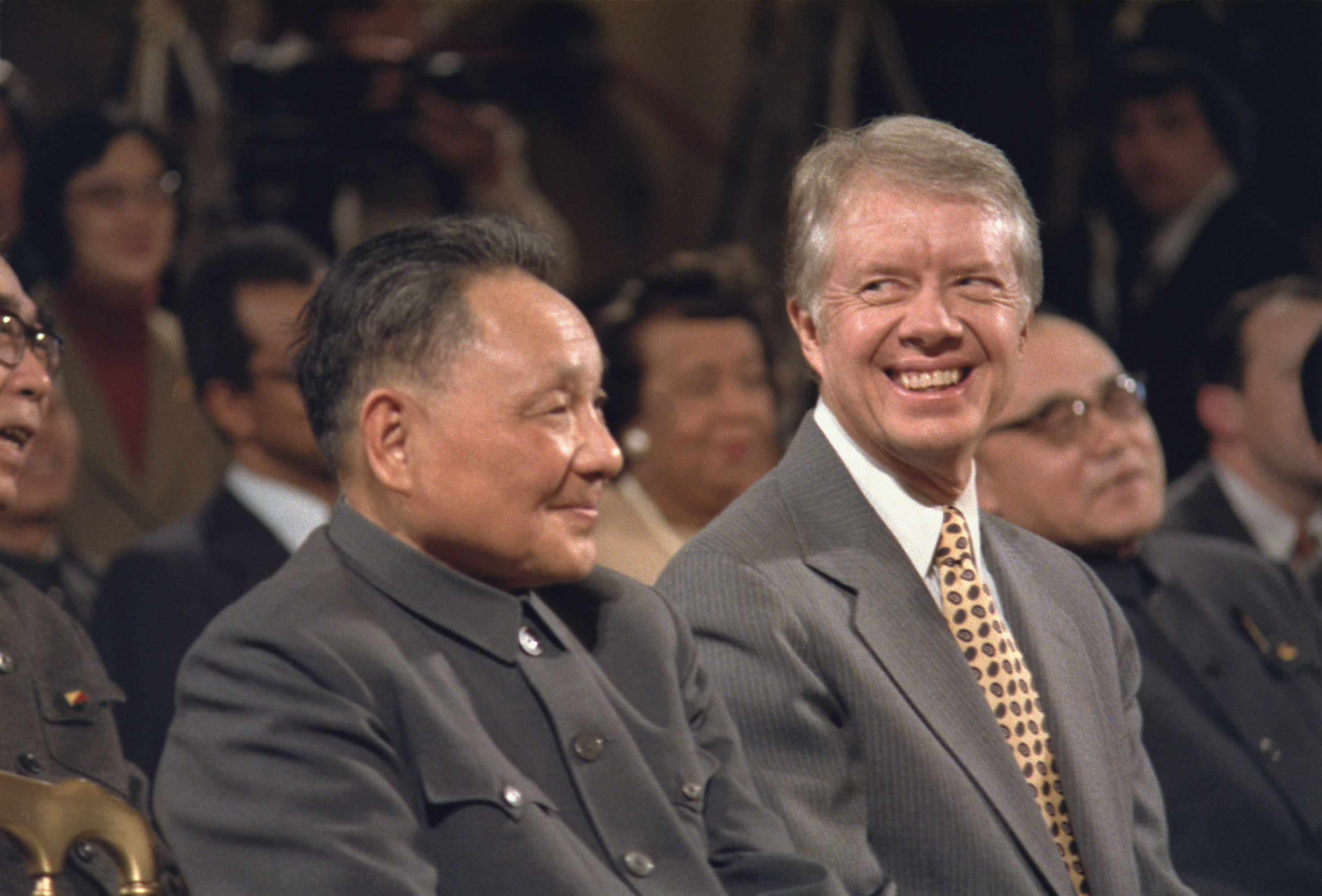 Deng Xiaoping and Jimmy Carter during Sino-American signing ceremony.